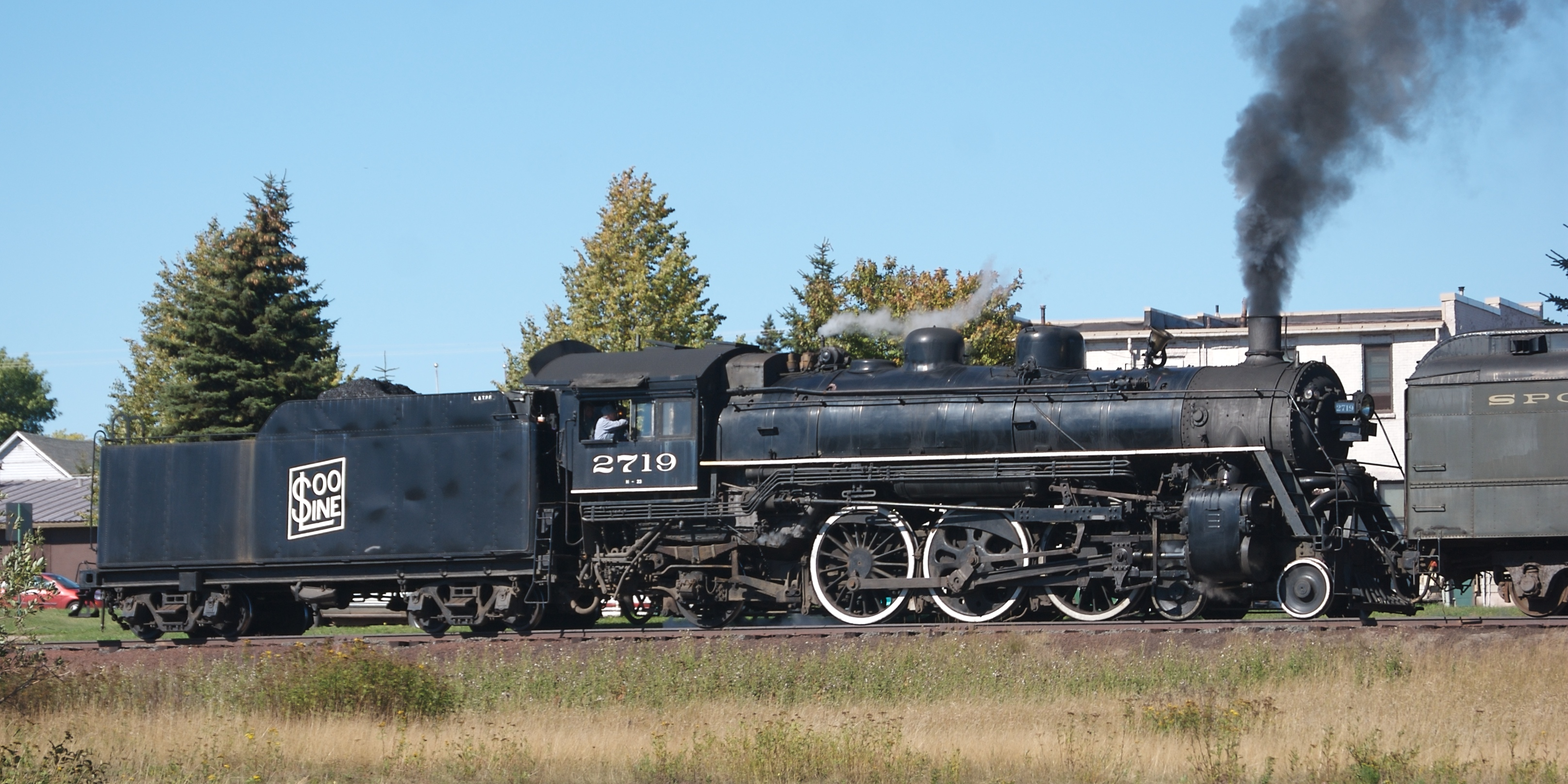 Soo Line 2719 is a restored w:4-6-2 steam locomotive that was originally operated by the Soo Line Railroad.